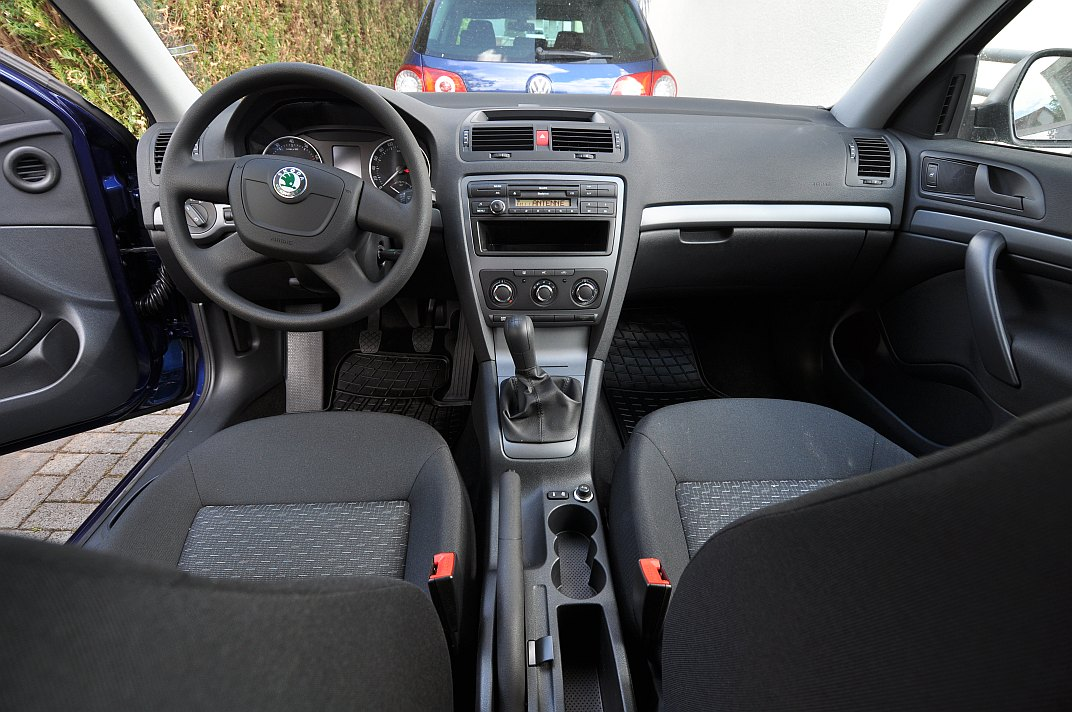 Interior of a Škoda Octavia Tour MY 2012 with Czech "Trumf plus" package (CD radio, front power windows, AC)